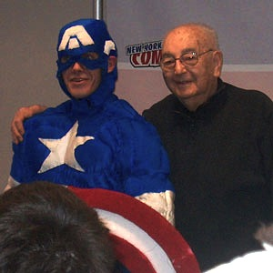 Joe Simon at the 2006 New York Comic Con with a fan dressed as Captain America.